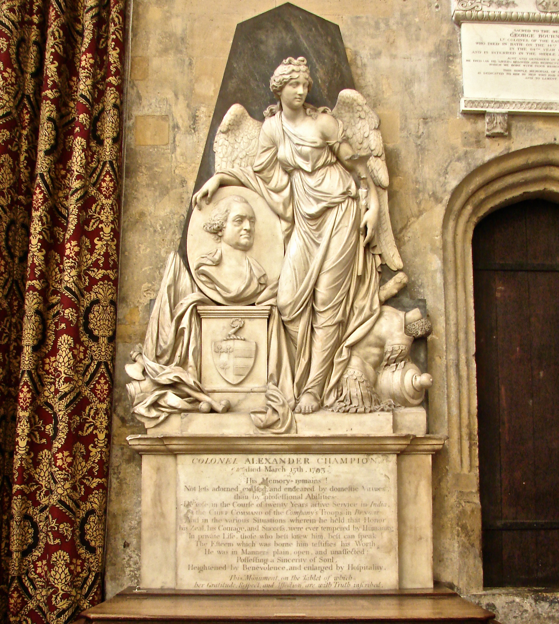 A memorial to Colonel Alexander Champion located in Bath Abbey, UK.